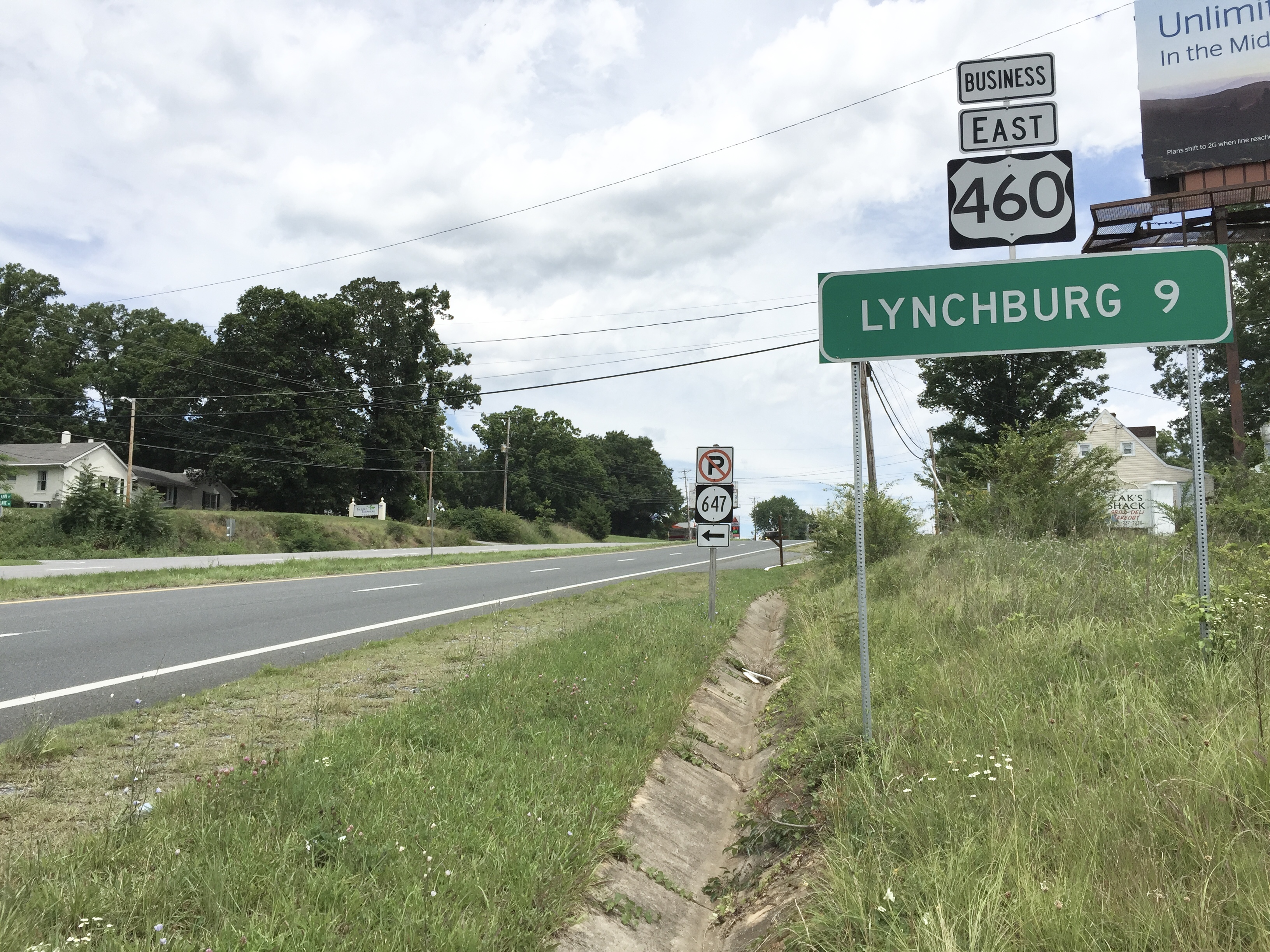 View east along U.S. Route 460 Business (Timberlake Road) at Mary Ann Drive (Virginia State Secondary Route 647) in Timberlake, Campbell County, Virginia